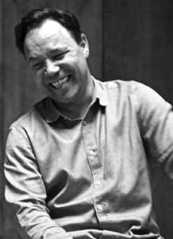 Stephen Graham & Mickey DeHara shot by Susan Bingham for CLASH (magazine)